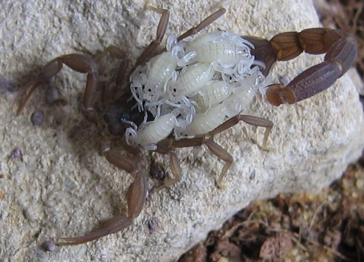 Fusion121, took picture myself of captive scorpion